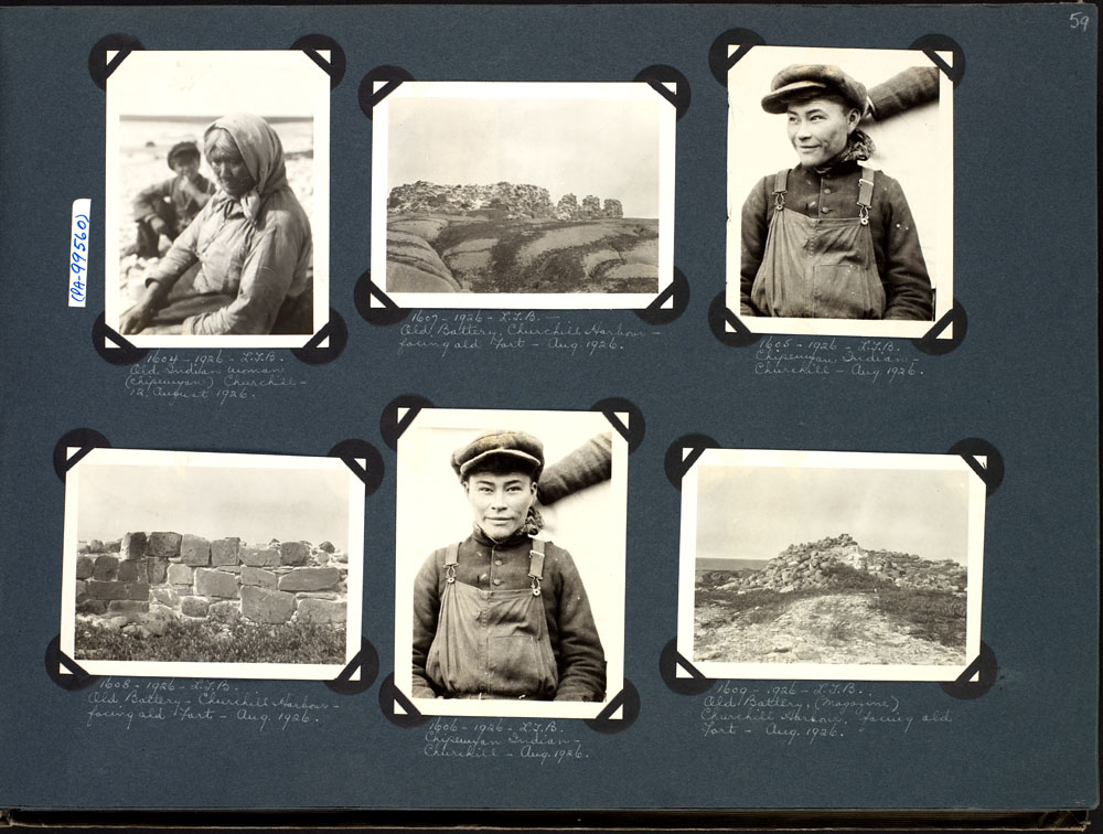 Photos of Chipewyans by L.T. Burwash album compiled for the Canadian Department of the Interior